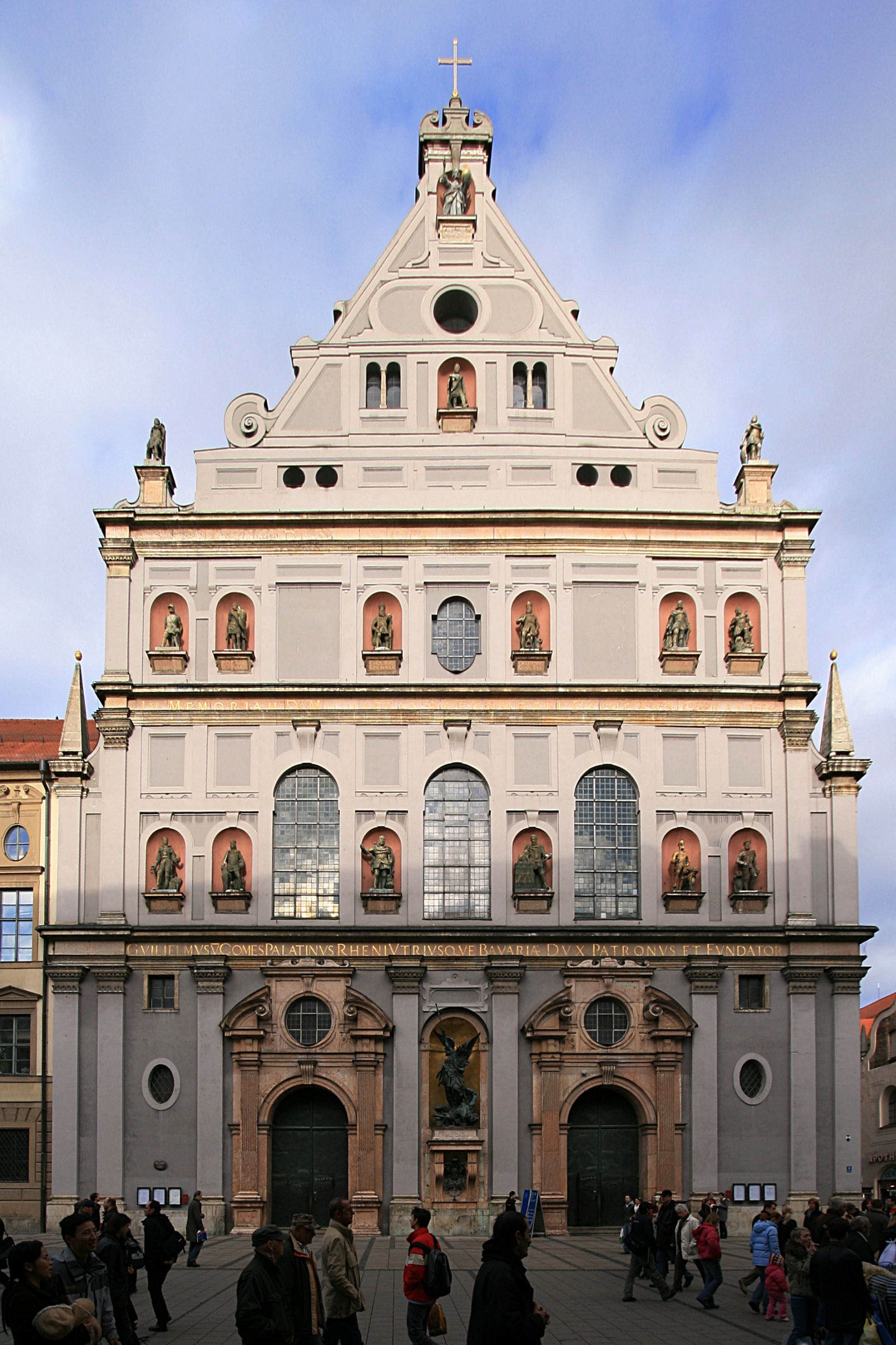 St. Michael's Church during evening, Munich.